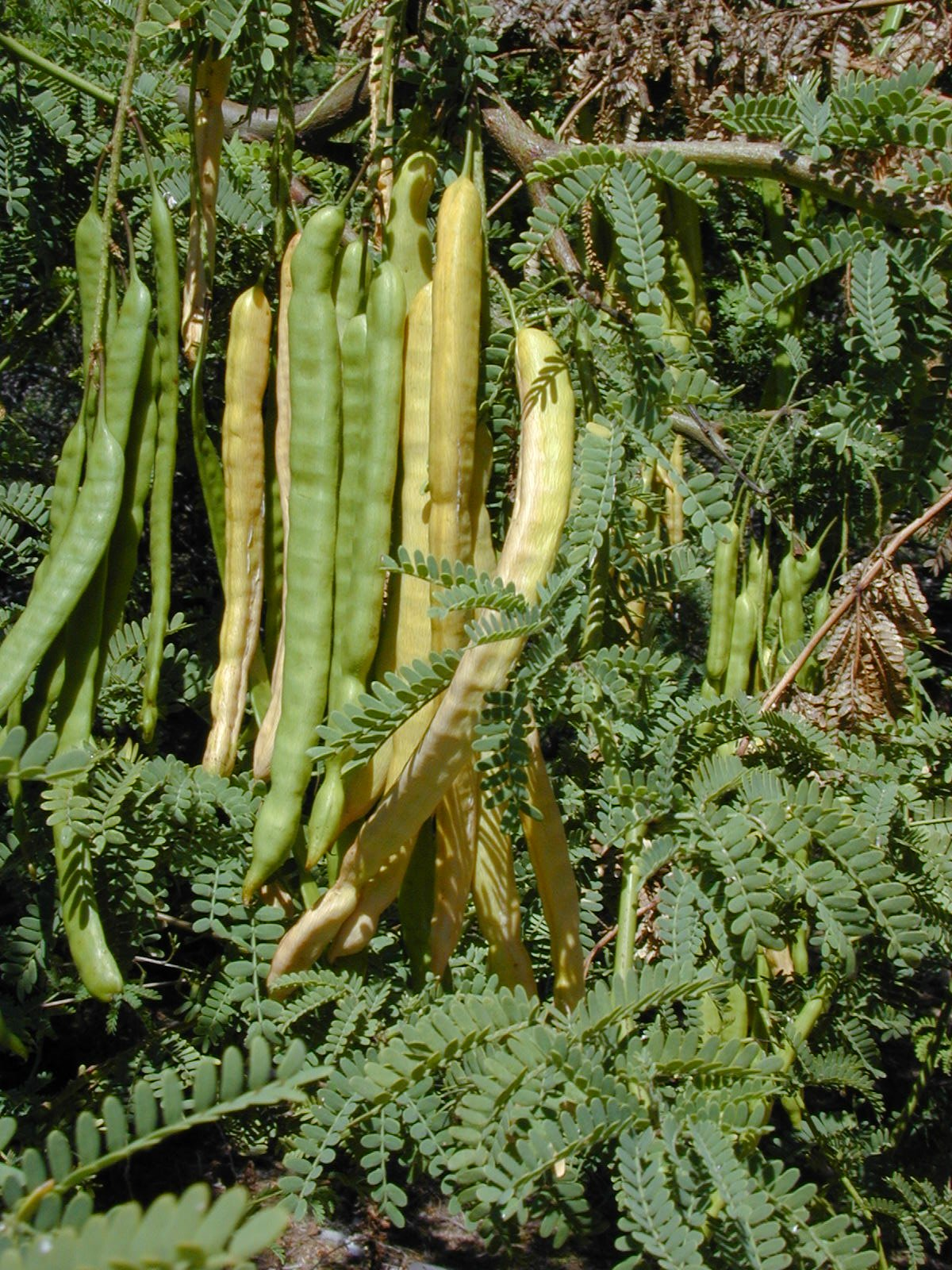 Prosopis pallida (hanging seed pods). Location: Maui, Kanaha Beach